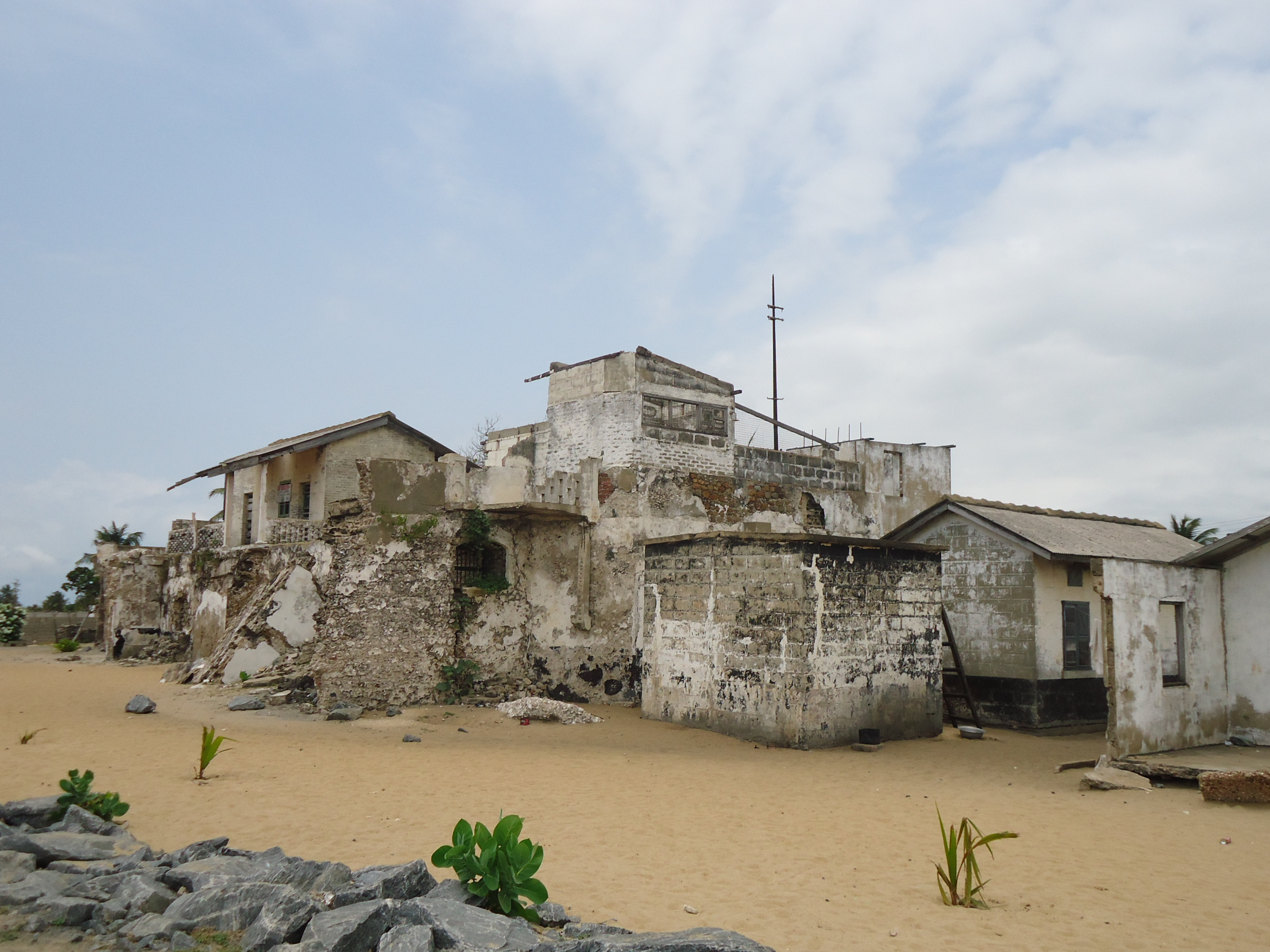 A view of the ruins of an ancient European fort in Keta. The devastation of the fort is partly due to sea erosion in the Keta area.